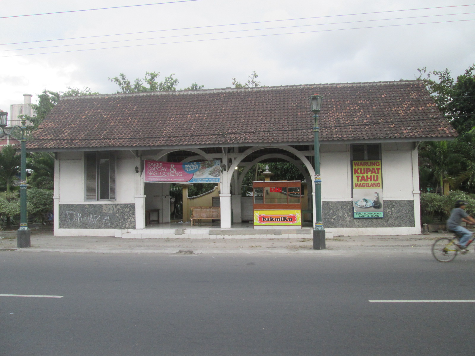 This is Dongkelan station. The station is now used as a restaurant. The building is replica only and the original building was completely extinguished by fire.